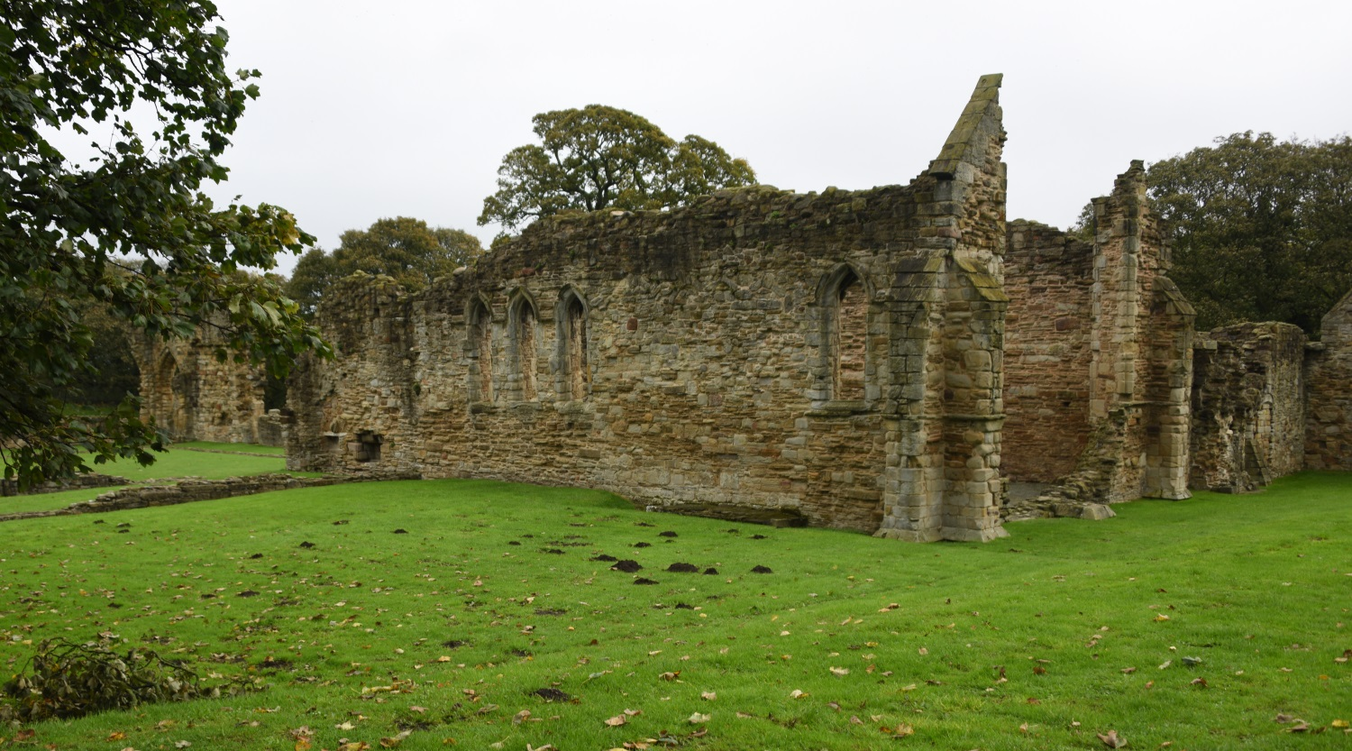 Basingwerk Abbey, Wales. Refectory form southwest.